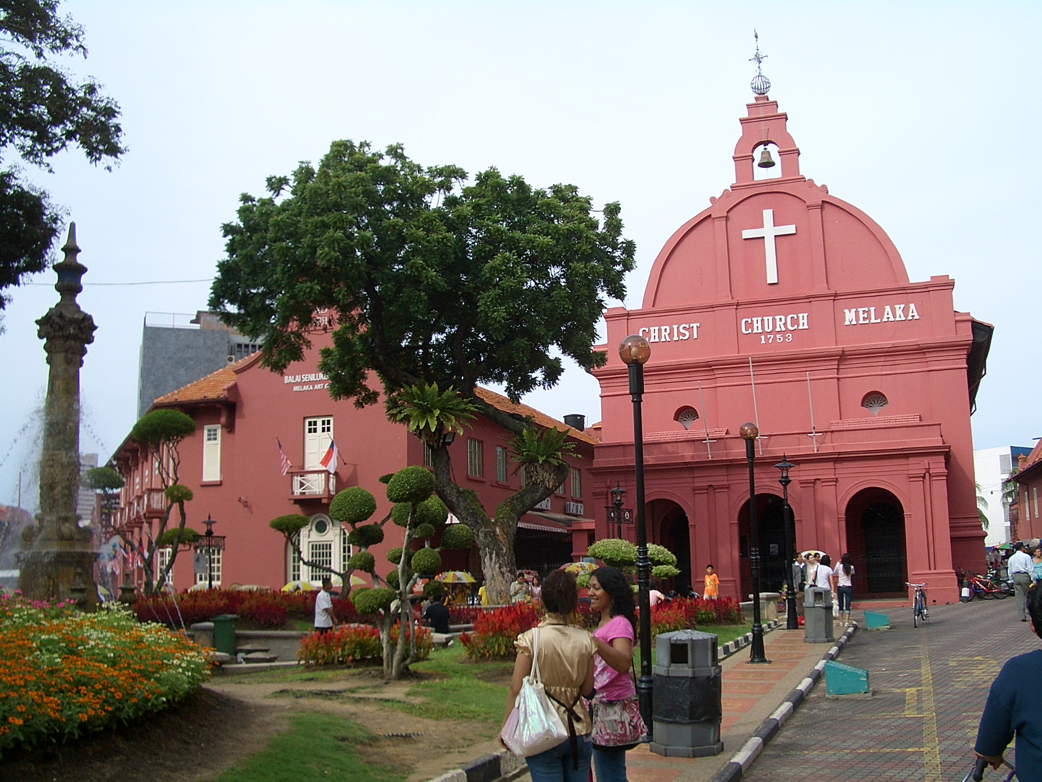 A view of Dutch square in Melaka, with Christ Church in the center